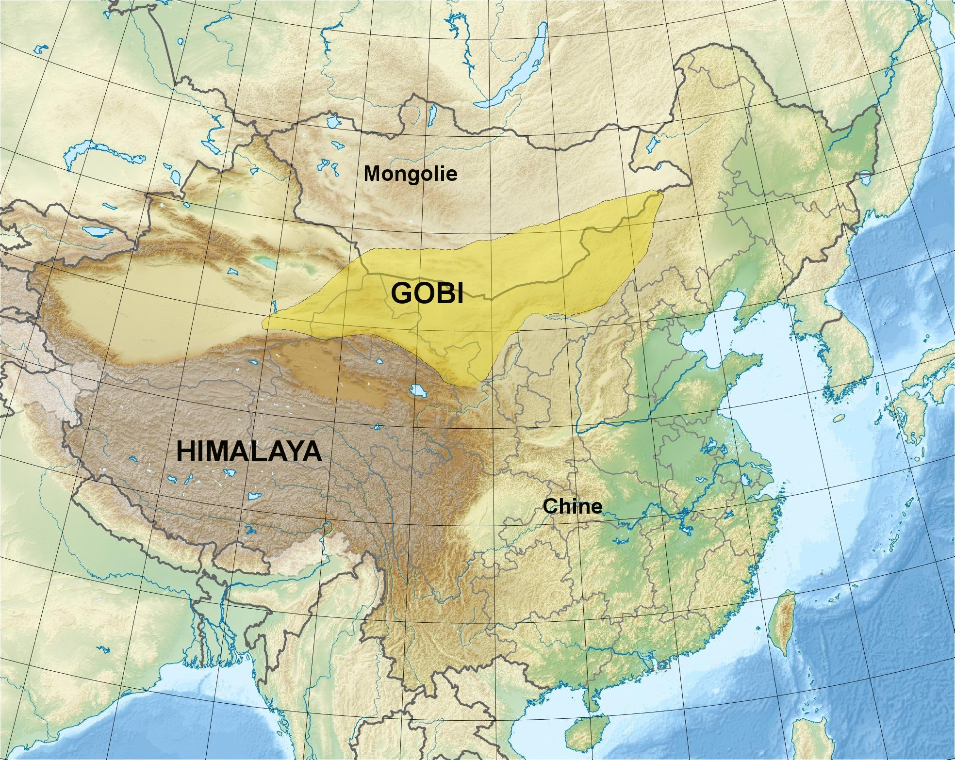 Gobi desert map